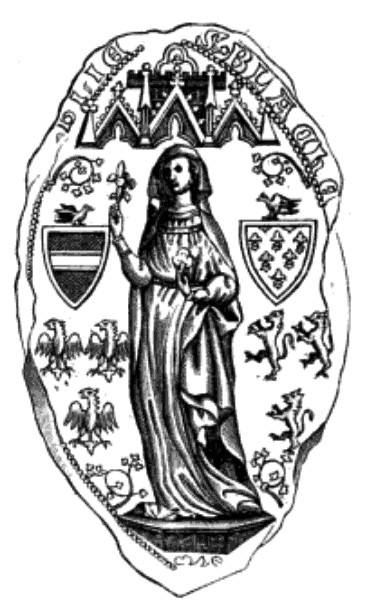 Blanche of France (1305)